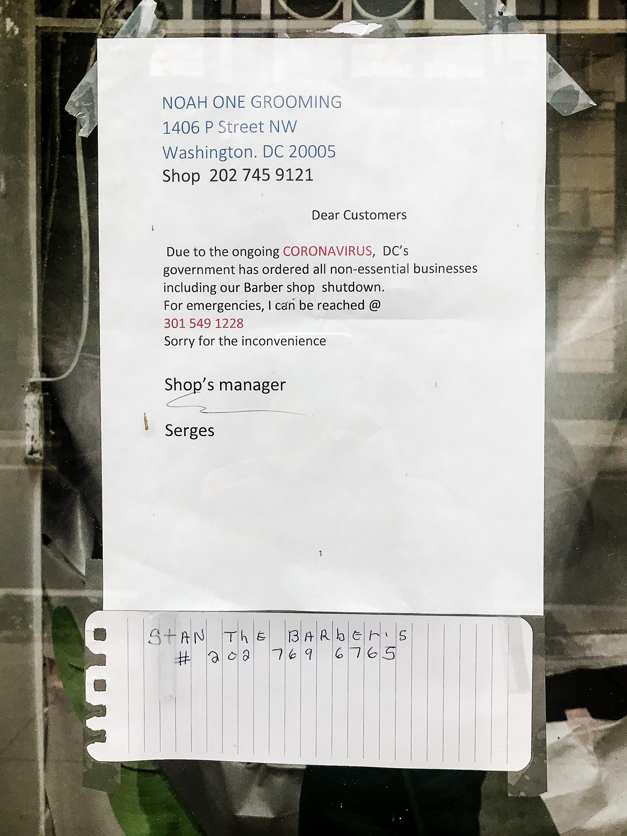 Sign on a Closed Barbers Shop on P St in Washington DC during the COVID-19 lockdown